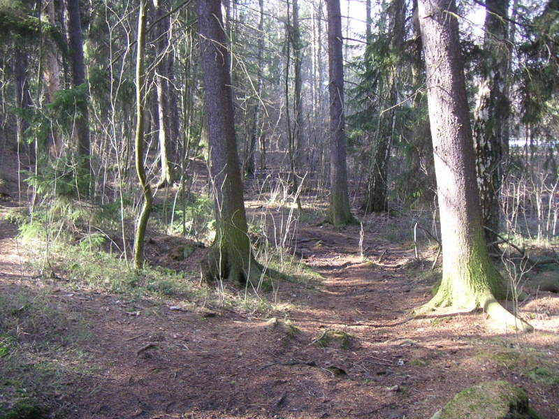 An old forest in Kivinokka, Herttoniemi, Helsinki, Finland